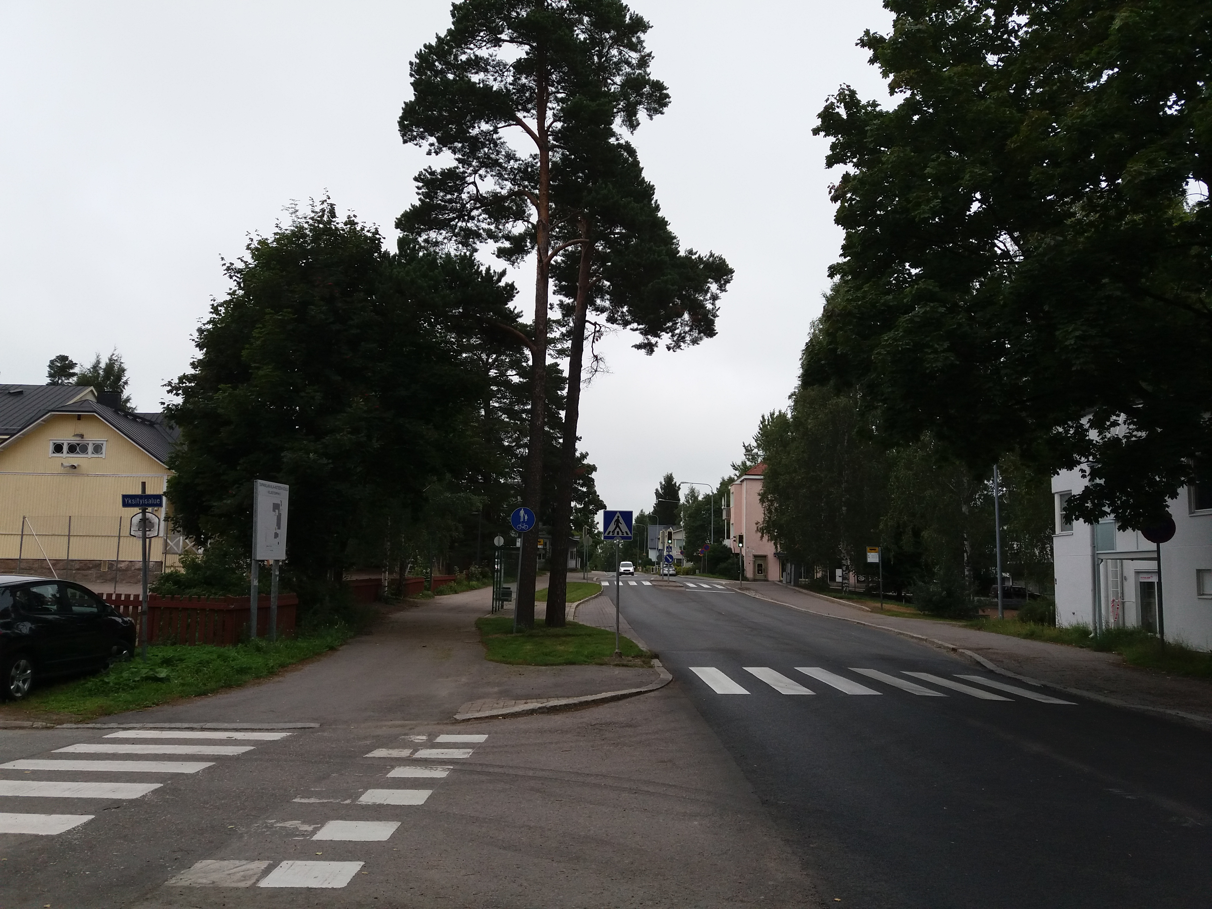 Tapanila district in northern Helsinki in August 2017